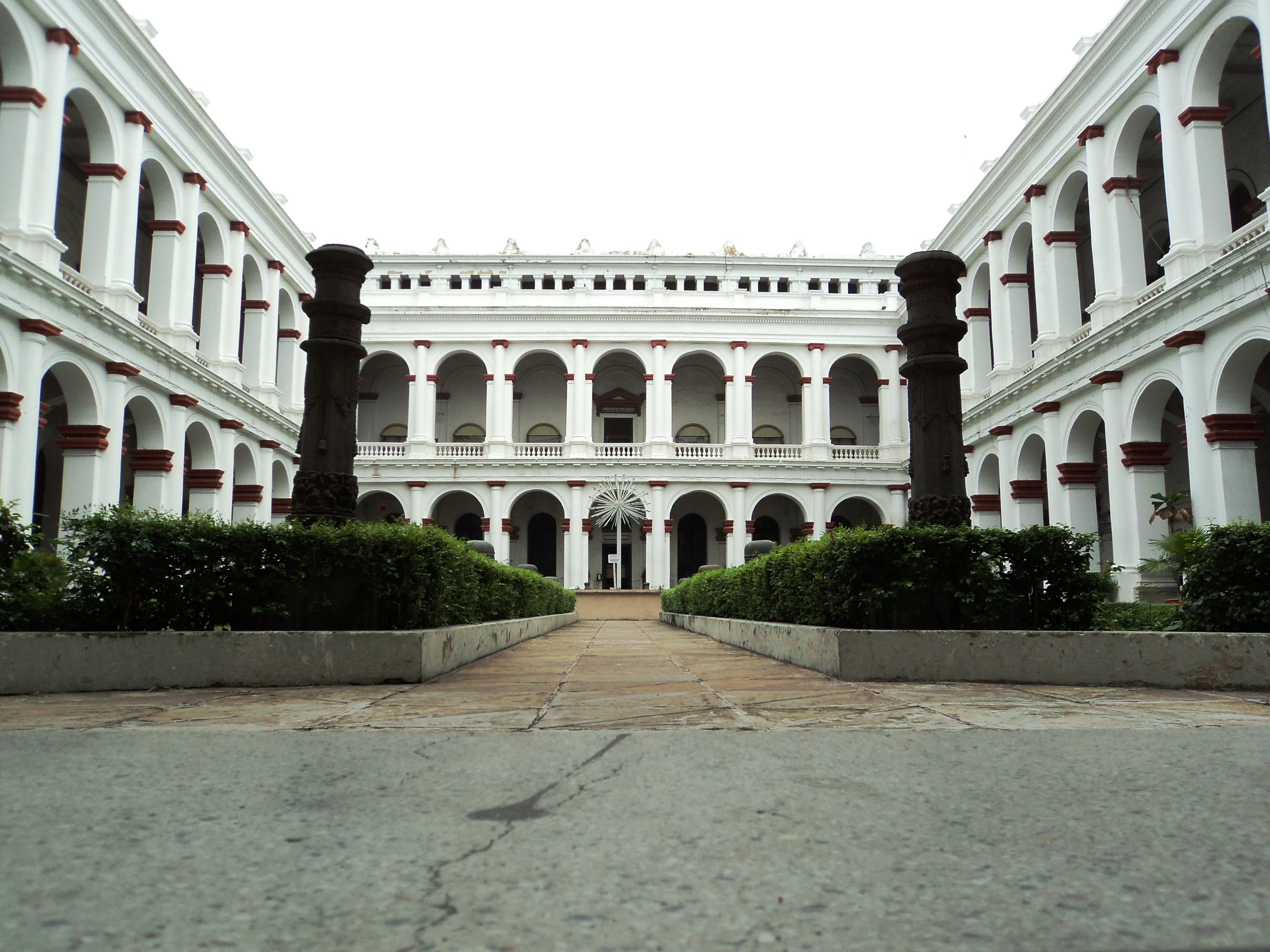 Indian Museum